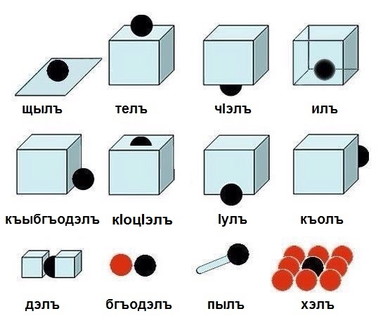 Adyghe Conjugation